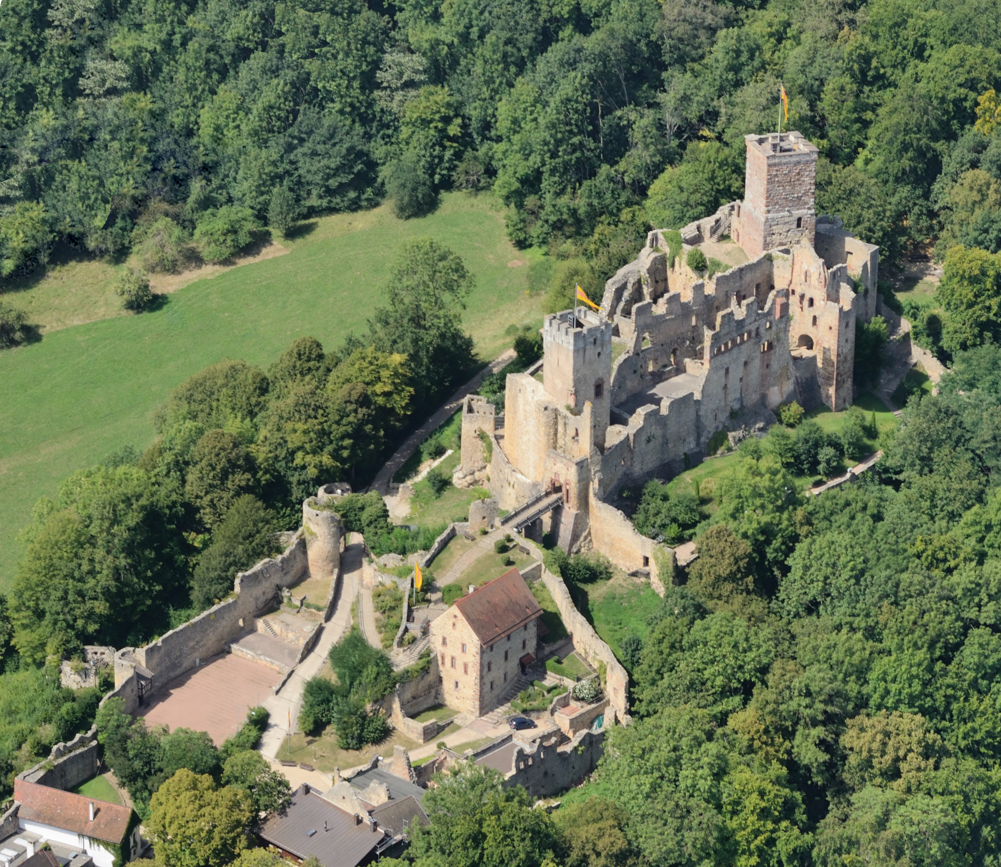 Lörrach: aerial view of Rötteln Castle